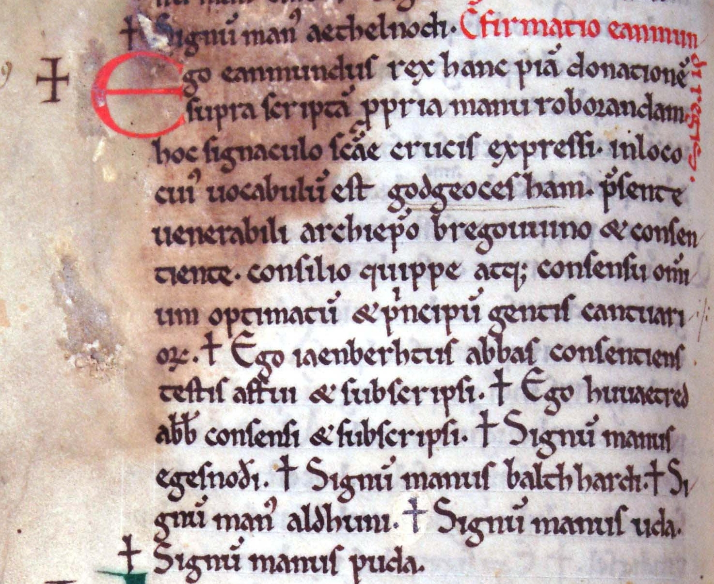 Signature (cross) of Eanmund, King of Kent in 764/765, on Charta S33 taken from Textus Roffensis f. 126v